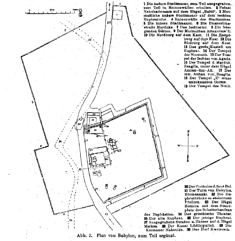 Plan of Babylon, completed in part